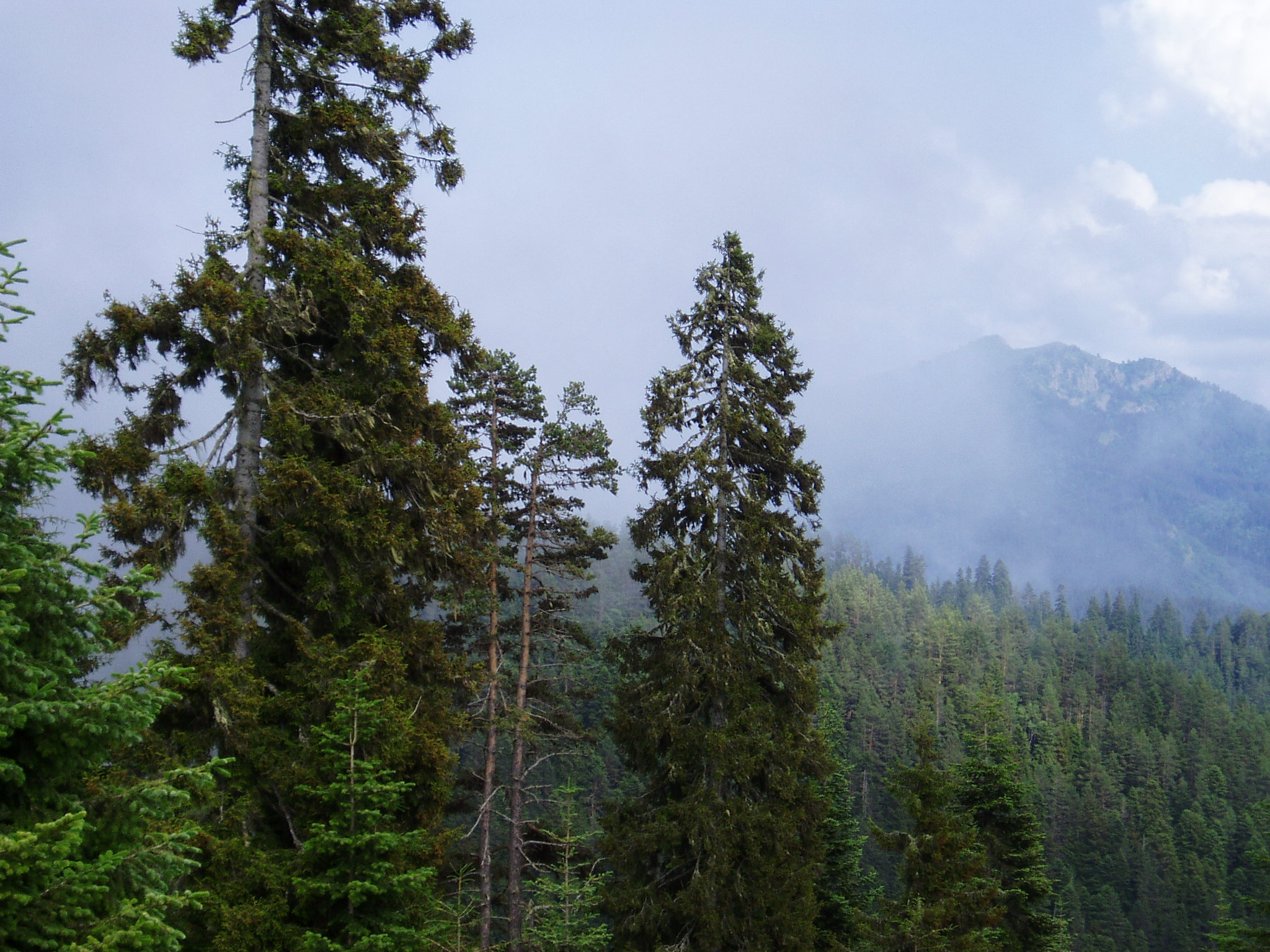 Borjomi-Kharagauli National Park. Trees are (left edge foreground) Abies nordmanniana, (two tallest trees) Picea orientalis, (slender trees with red bark) Pinus sylvestris var. hamata.